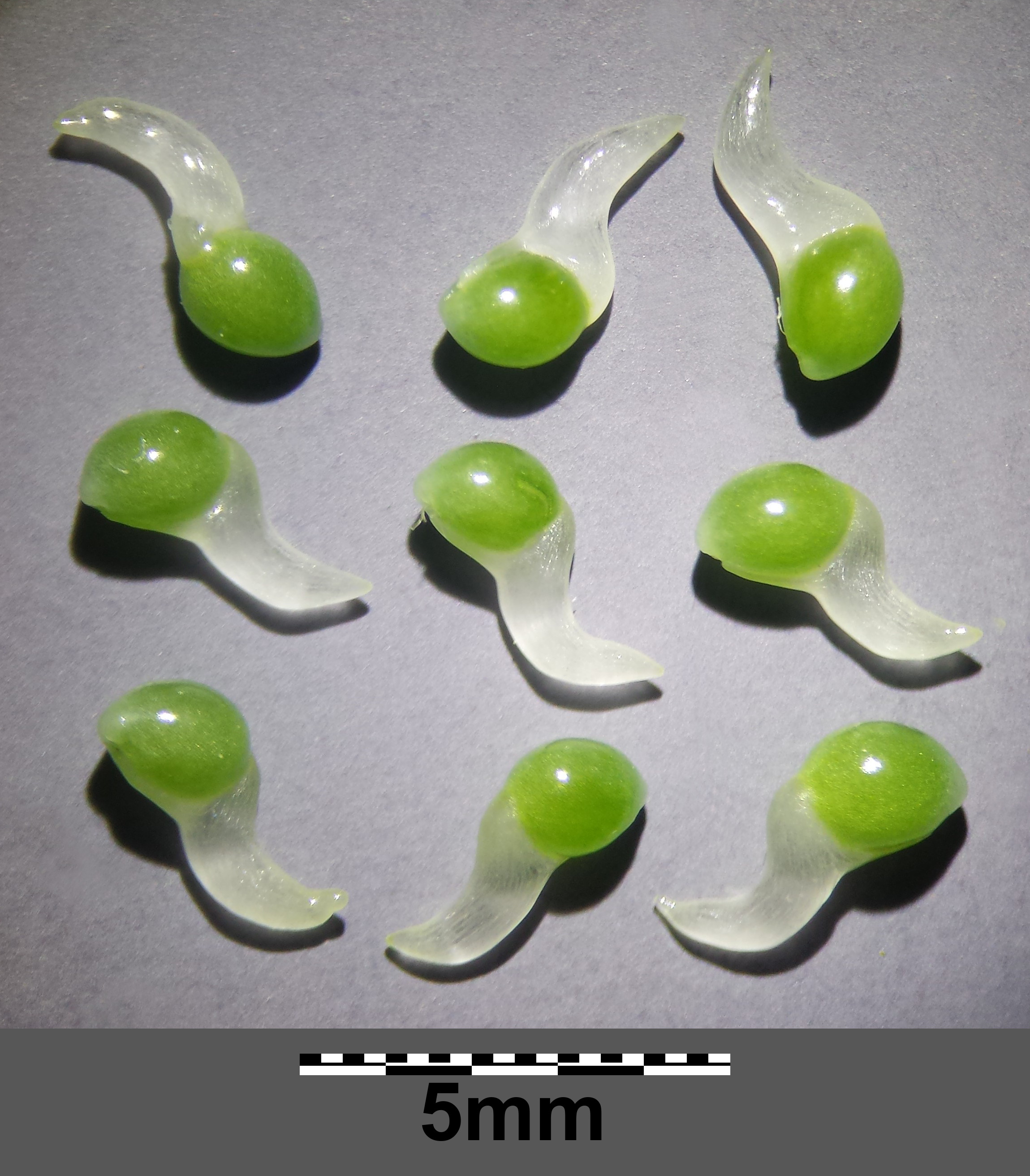 Seeds with elaiosome Taxonym: Luzula pilosa ss Fischer et al. EfÖLS 2008 ISBN 978-3-85474-187-9 Location: Rohrwald, district Korneuburg, Lower Austria - ca. 260 m a.s.l. Habitat: Carpinion betuli